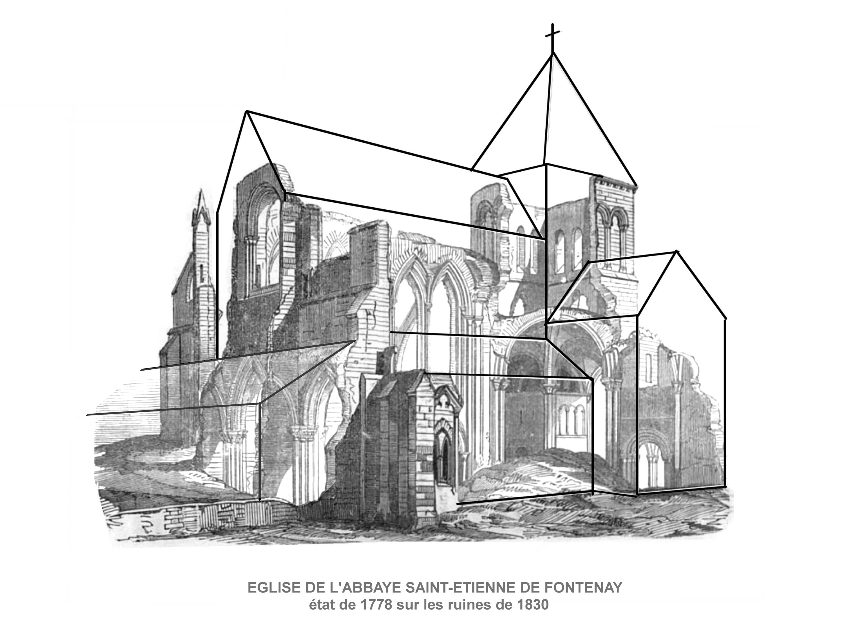 Eglise de l'abbaye Saint-Etienne de Fontenay, Superposition de l'état de 1778 sur les ruines de 1830